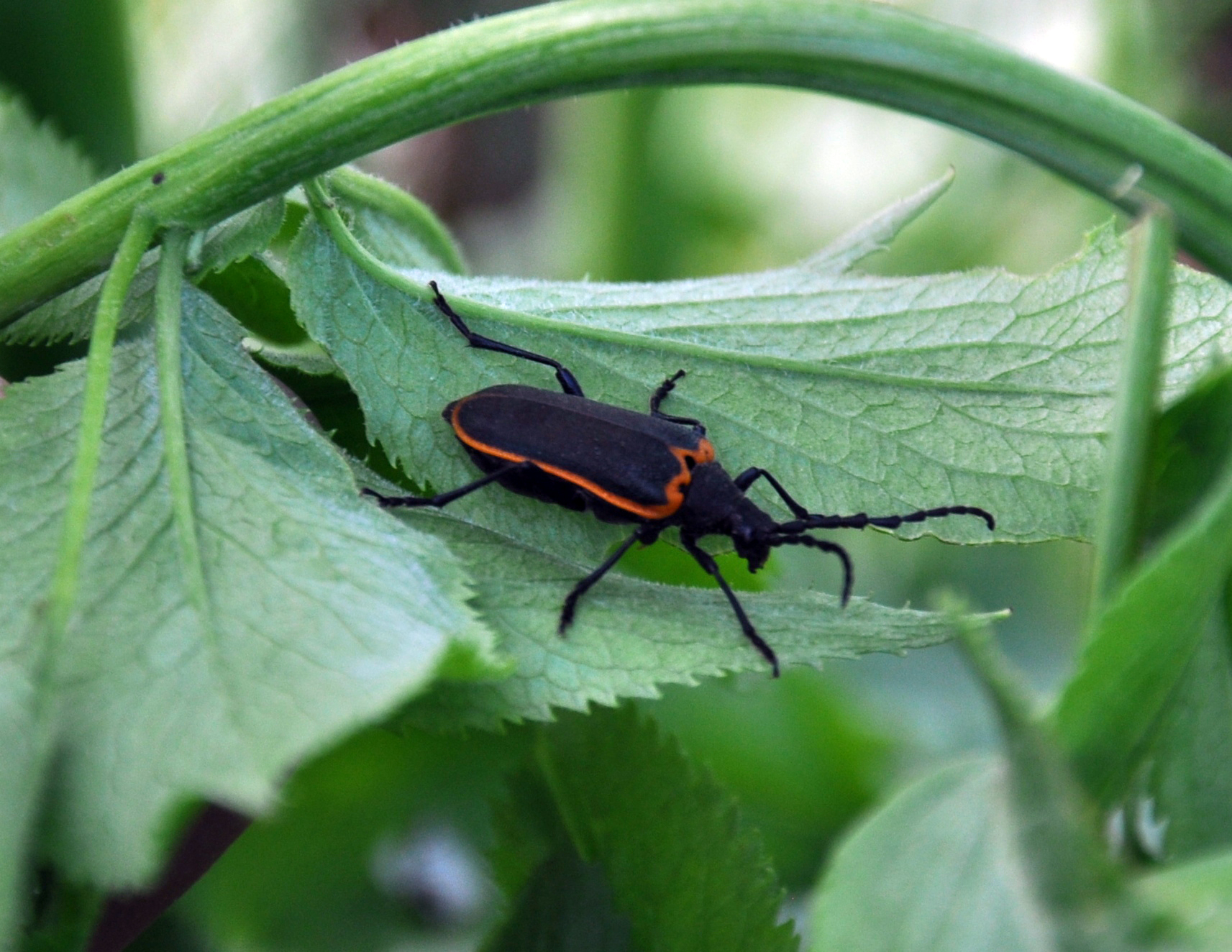 Status of the VELB is threatened, since 1980, but is currently a candidate to be de-listed (taken off the Endangered Species Act list). This female was found on the River Ranch Conservation Bank located at the north end of the Yolo Bypass Wildlife Area between the cities of Sacramento and Davis, California. USFWS photo/Brian Hansen